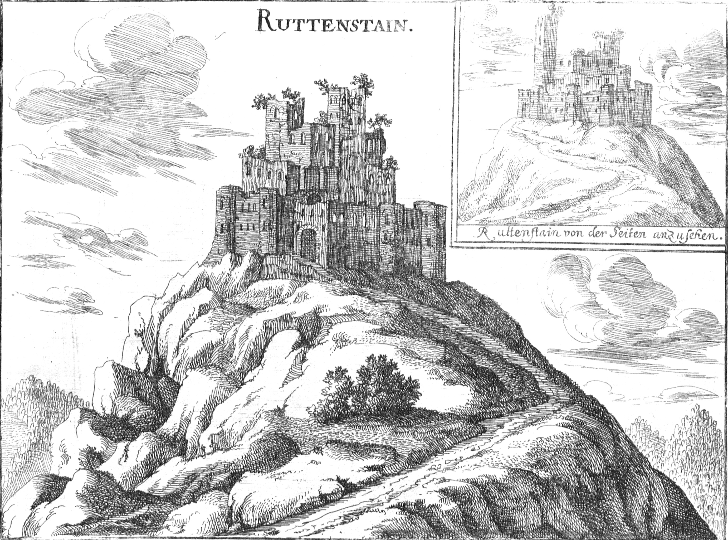 Castle Ruttenstein in upper Austria, drawn by M. Vischer 1674.